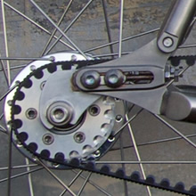 Fixed gear ISO belt drive hub